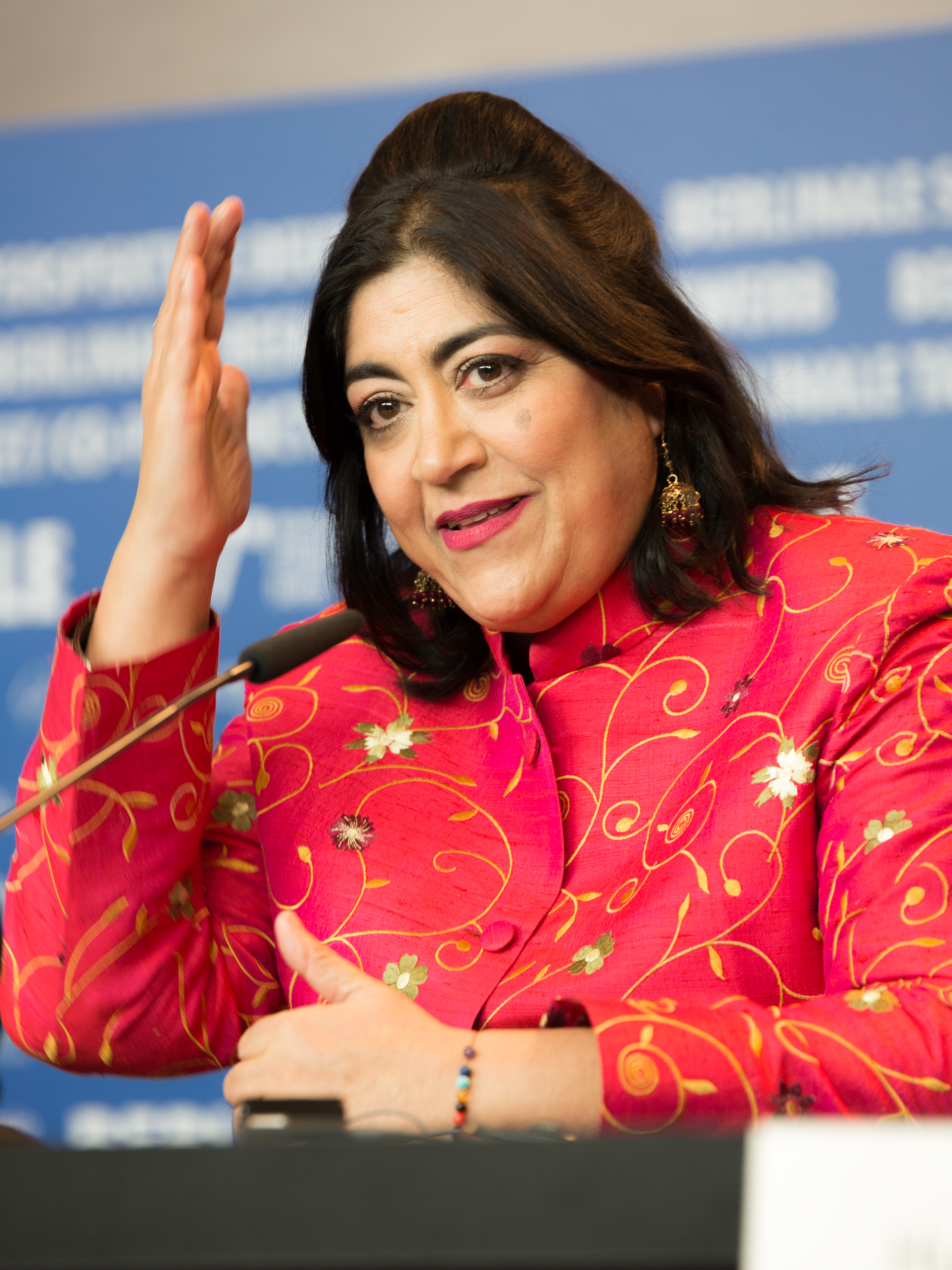 Director Gurinder Chadha presenting her film Viceroy's House at the Berlinale 2017